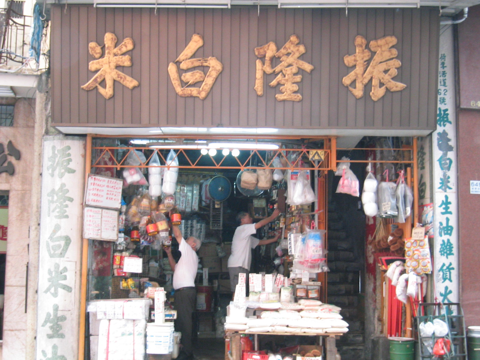 Rice shop, at No. 62 Hollywood Road, Central, Hong Kong. The shop closed in 2005.